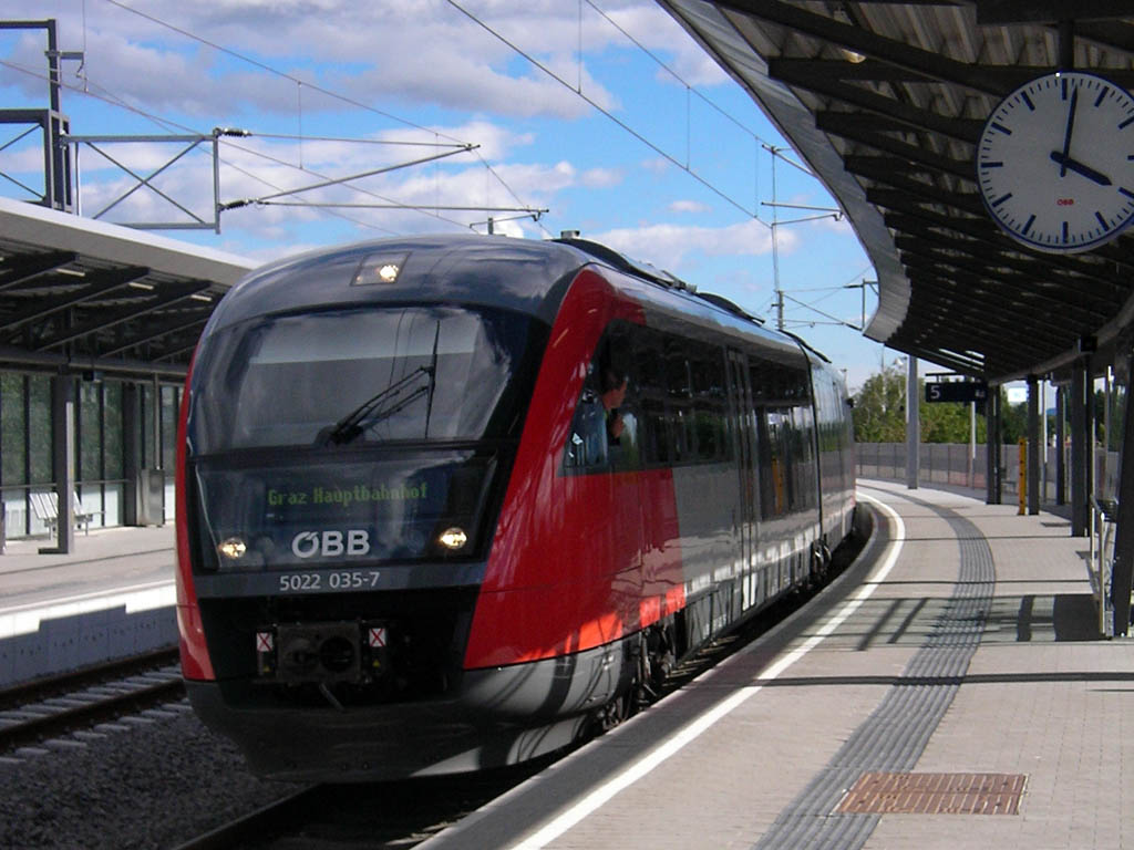 This is one of the first trains entering the new Don Bosco train stop in Graz. The station was opened the day before.